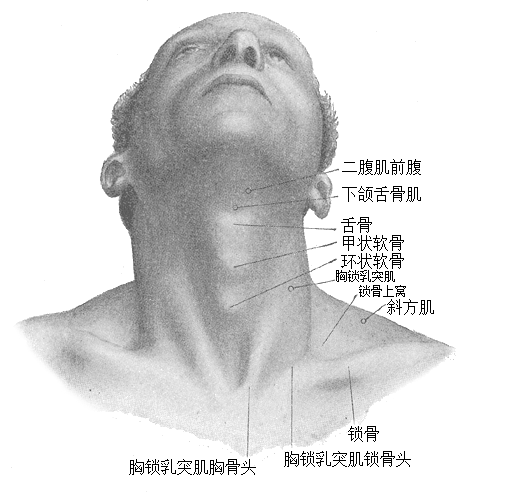 Structure of Adam's Apple - Diagram